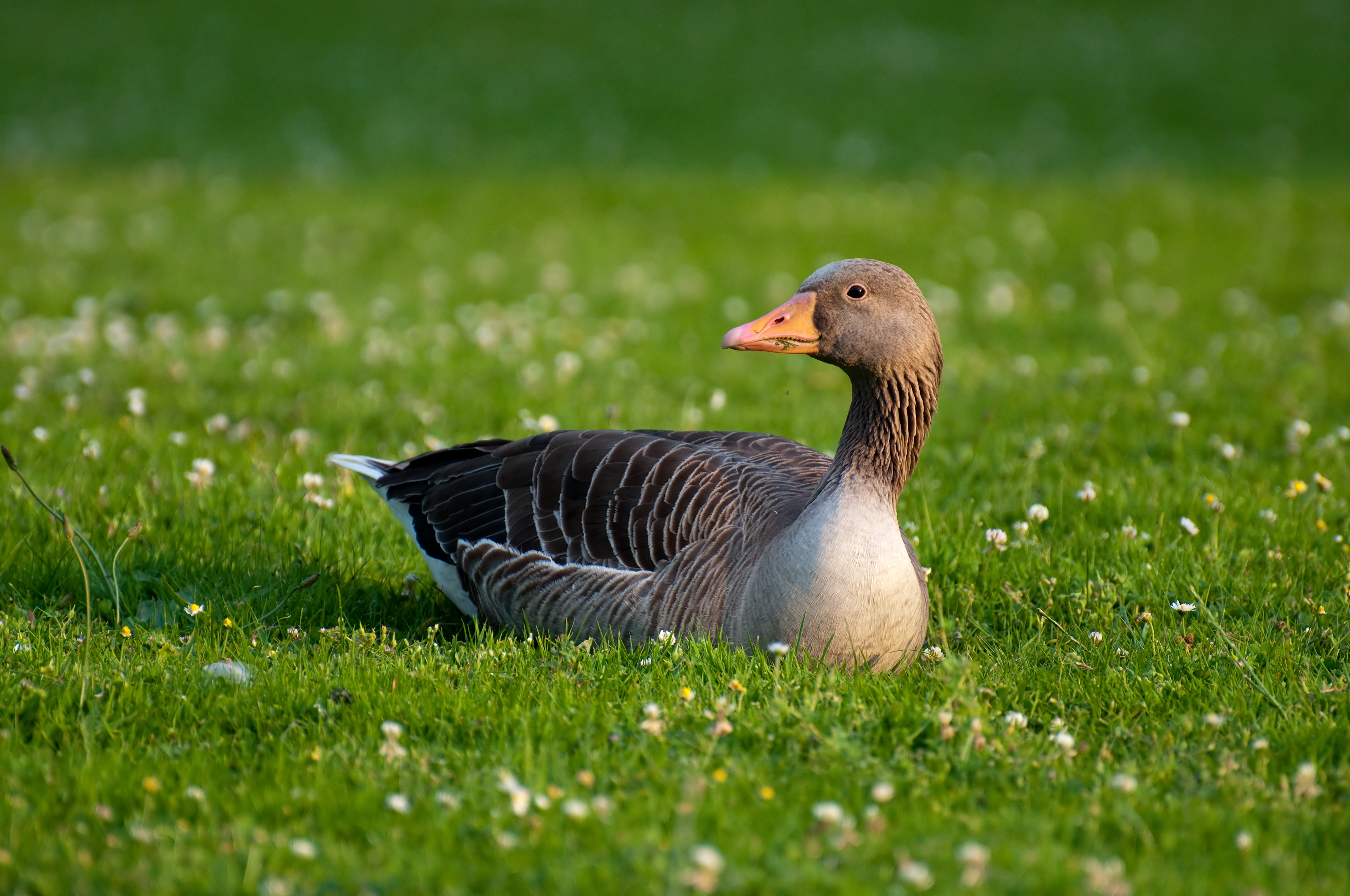 A greylag goose (Anser anser) in Bonn, Germany